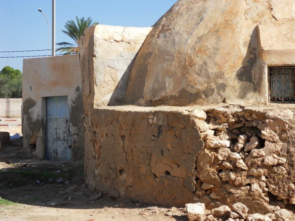 An image taken on a street in Ajim, Tunisia. The building in the photograph was the site of a STAR WARS film location in 1976. Photographed by Colin Kenworthy in October 2011.